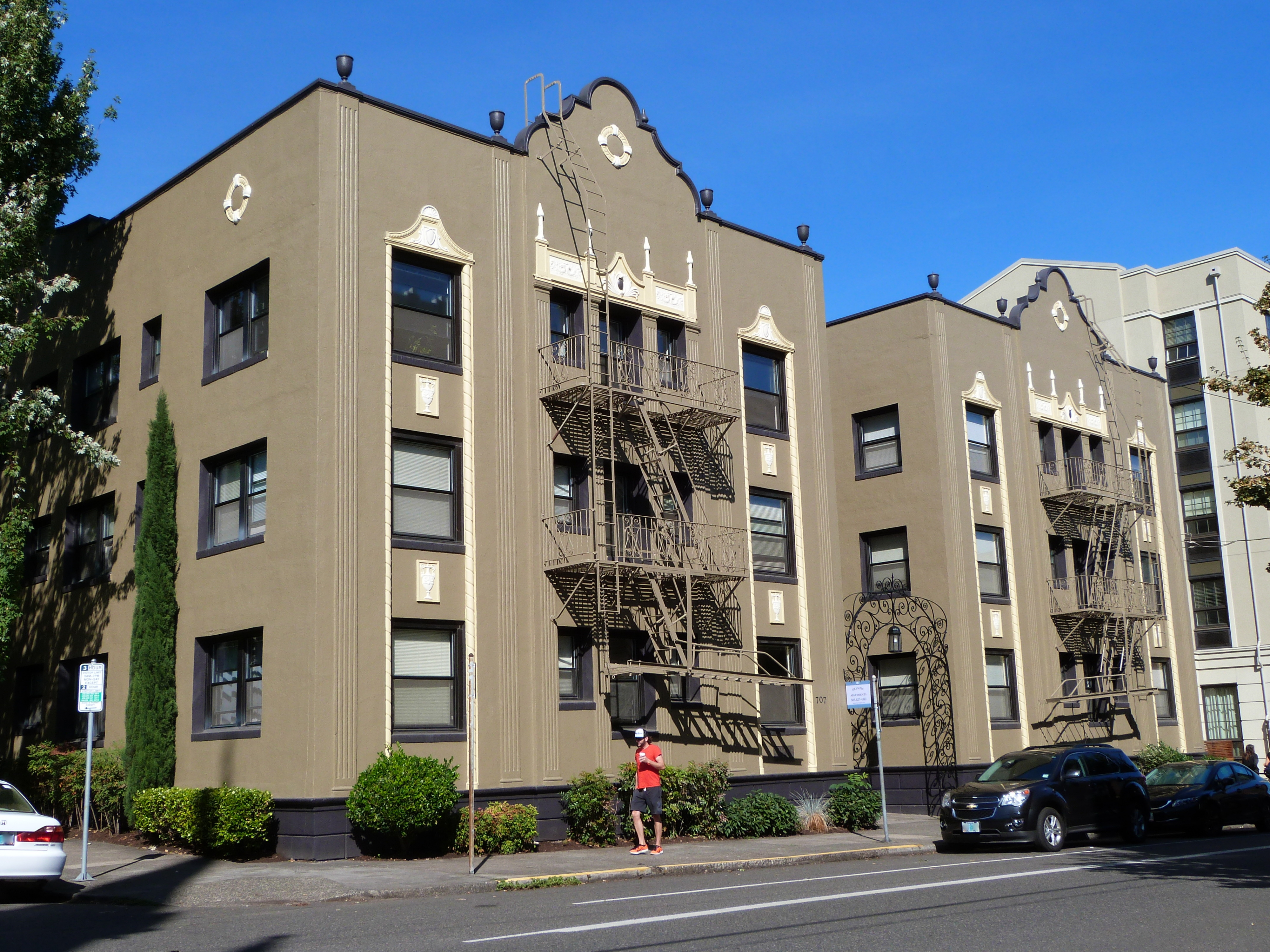 The historic Olympic Apartments (built 1929), located at 707 Northwest 19th Avenue in Portland, Oregon, United States, are listed as a contributing resource in the Alphabet Historic District. The historic district is listed on the US National Register of Historic Places.